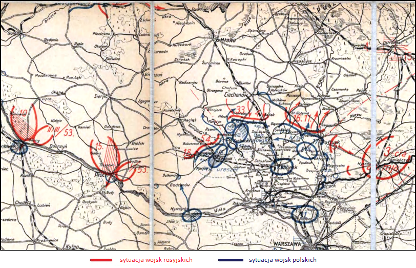 Władysław Sikorski, On the Vistula and Wkra. A Study from the Polish-Russian War of 1920. Sketch No. 6 (fragment): Situation in the fighting area of the 5th army on August 18, 1920 in the evening.